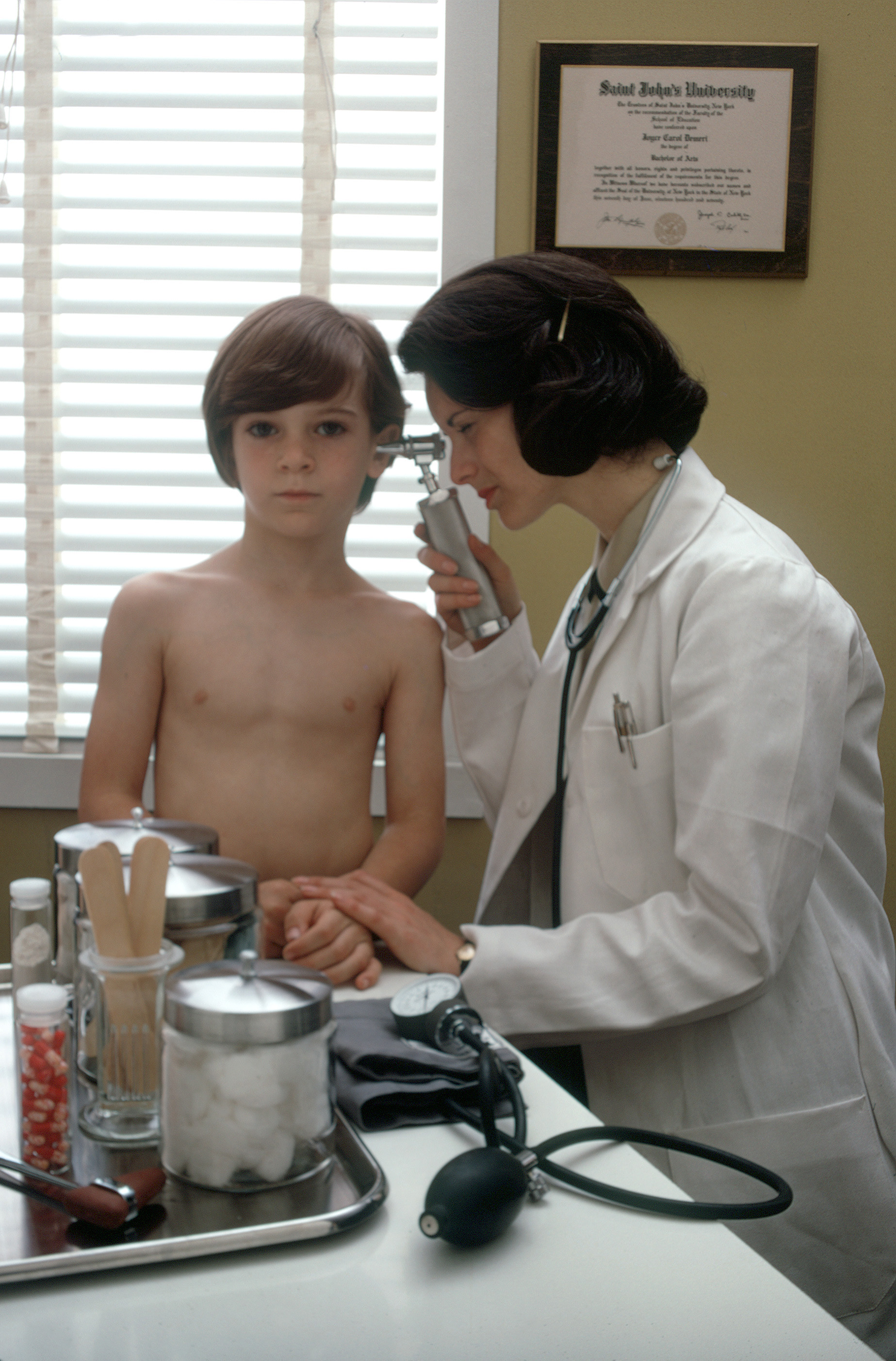 A female doctor examines a child.